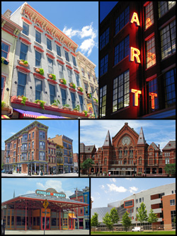 A collection of photos that describe Over-the-Rhine in Cincinnati, Ohio. (Note: all photos are available at Wikimedia Commons).